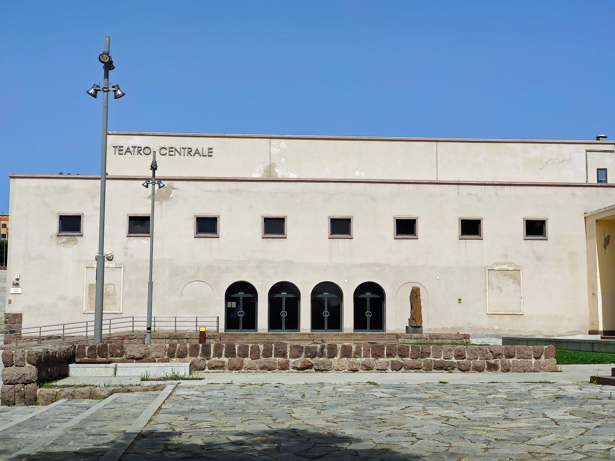 The Centrale theatre in Carbonia, Sardinia, Italy